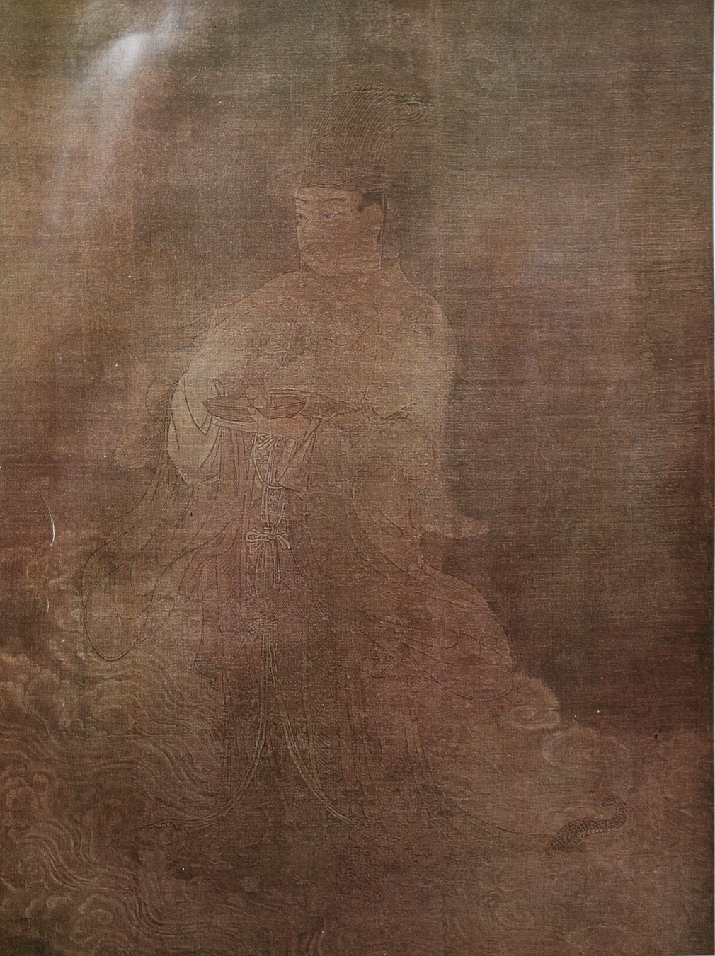 Dragon King Zennyo . Hanging scroll. Color on silk. Located at Kongōbu-ji, Mt. Kōya, Wakayama, Japan. The scroll has been designated as National Treasure of Japan in the category paintings. Dated ACE 1145